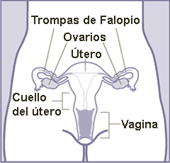 Spanish-translated version of Image:Female anatomy frontal.png.